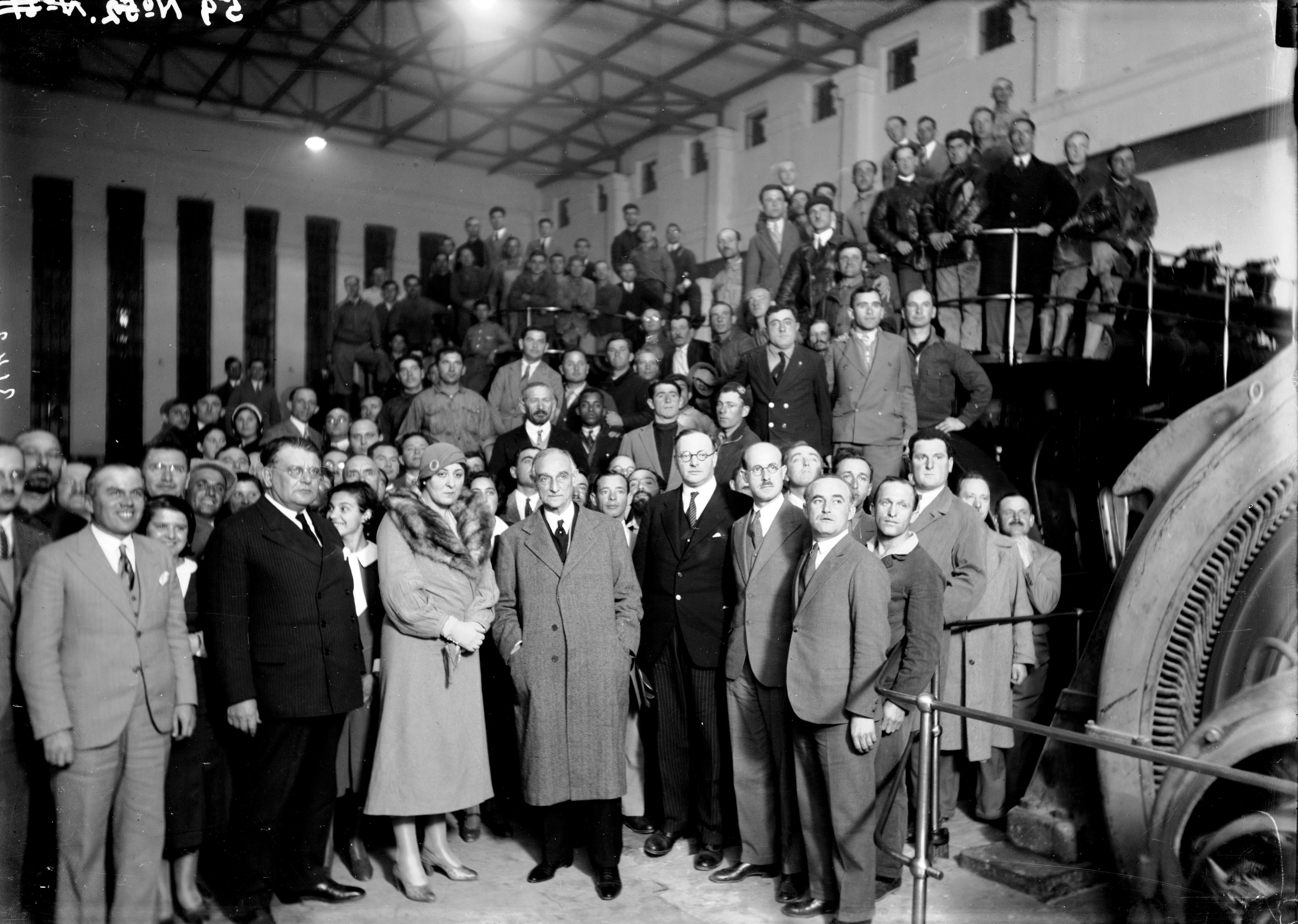 Original LOC caption - Tel Aviv. Lord and Lady Reading in power house with a large group. It is more likely to be the Haifa Power house.